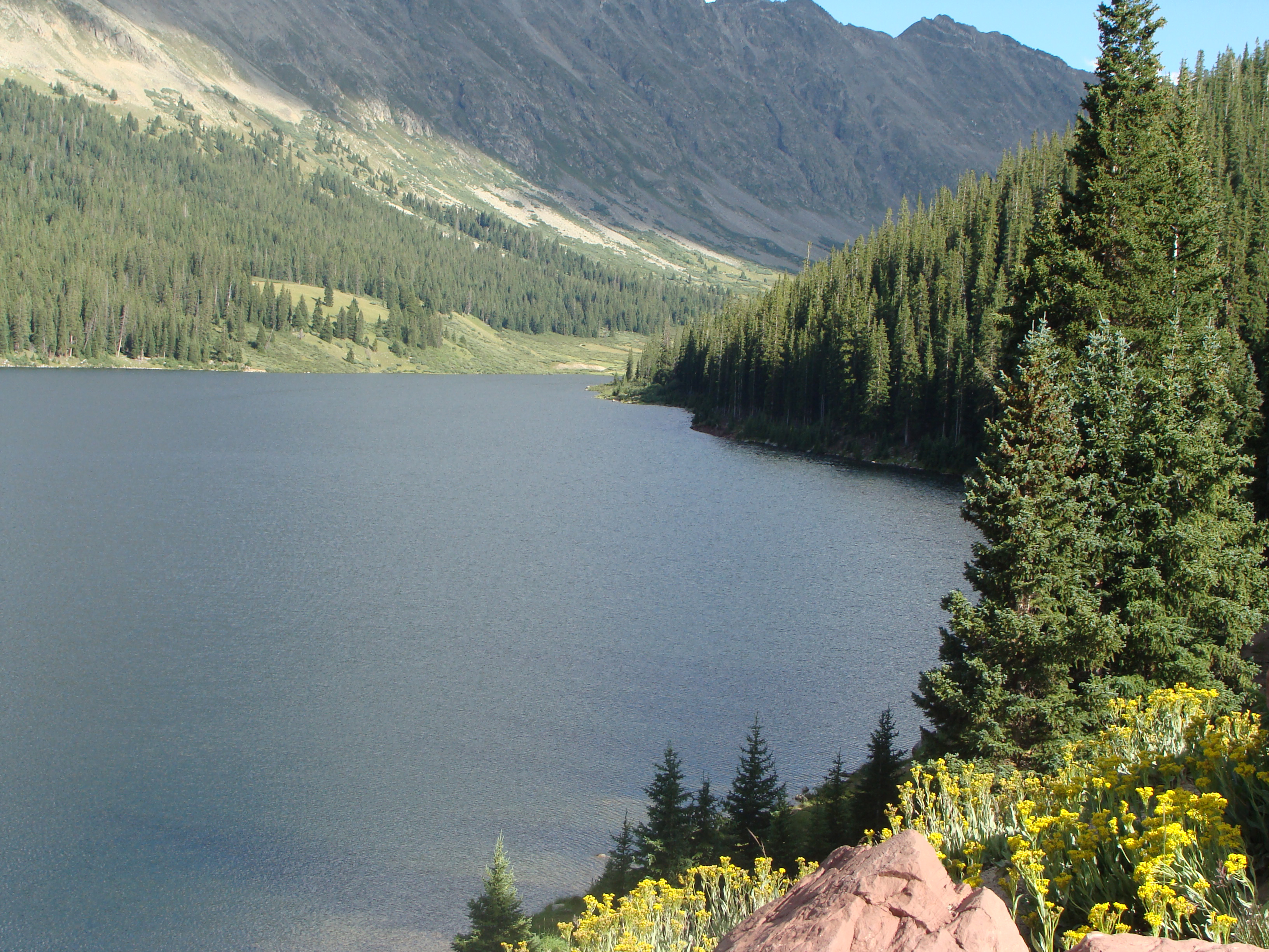 Clinton Reservoir, north of Pike National Forest, Colorado.